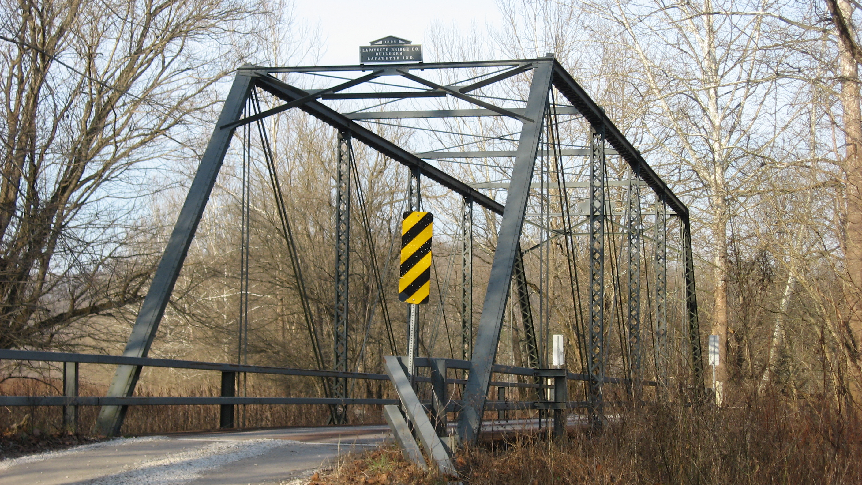 Southern portal and eastern (downstream) side of the Monroe County Bridge 114, which carries Friendship Road over Stephens Creek (a Salt Creek tributary) east of Bloomington in Salt Creek Township, Monroe County, Indiana, United States. It was built in 1898.